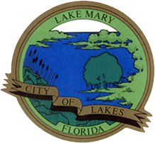 The official city logo for Lake Mary